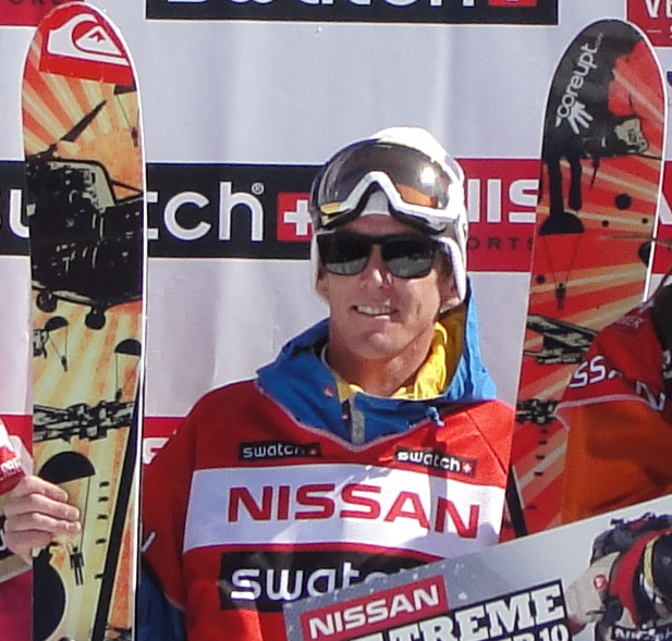 Candide Thovex on the podium of Xtreme Verbier 2010